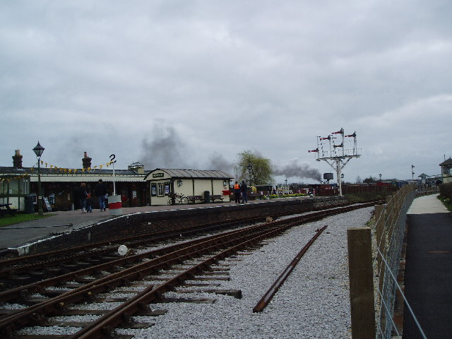 Quainton Road Station. A view of the platform that would have originally served the Brill Tramway, which closed in 1934. The station is no longer in service, and is now the home of the Buckinghamshire Railway Centre.